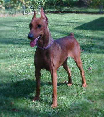 Typical red German Pinscher female. See more at Chosen At Tara.